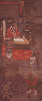 Ten Kings of Hell, Hofukuji, Soja, kept at Okayama Prefectural Museum, Okayama, Okayama, Japan